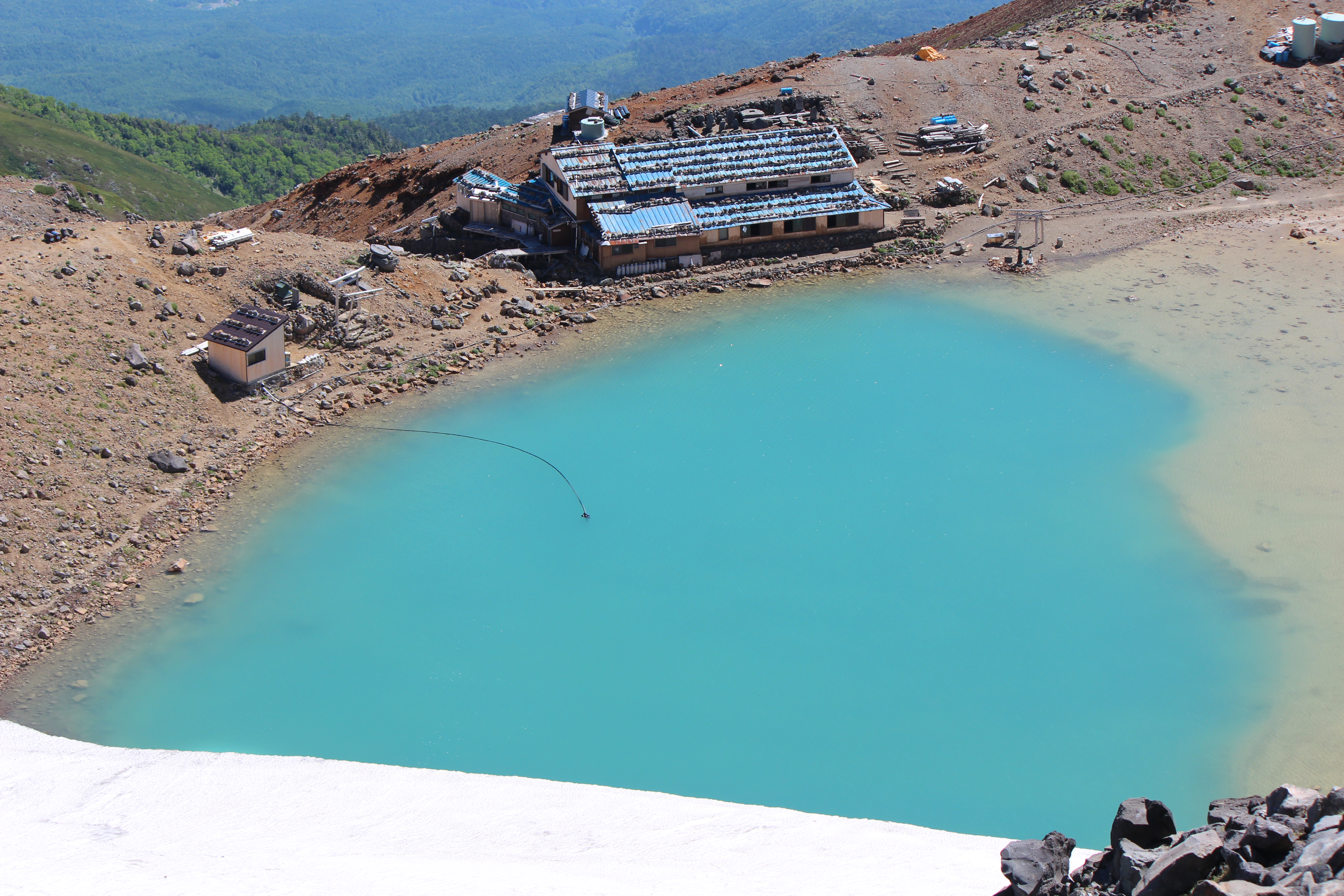 Ninoike huts in Mount Ontake, Japan.